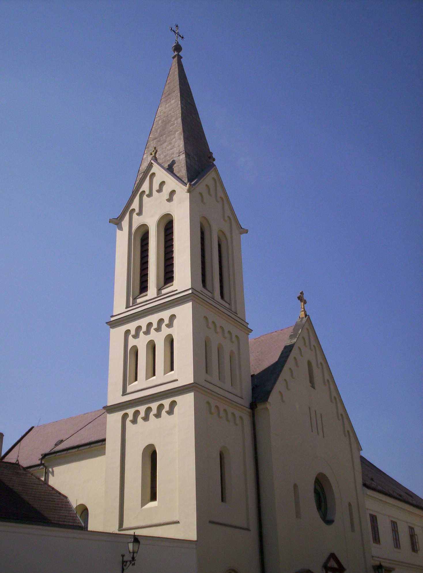 Description: The Franciscans' Church in Veszprém